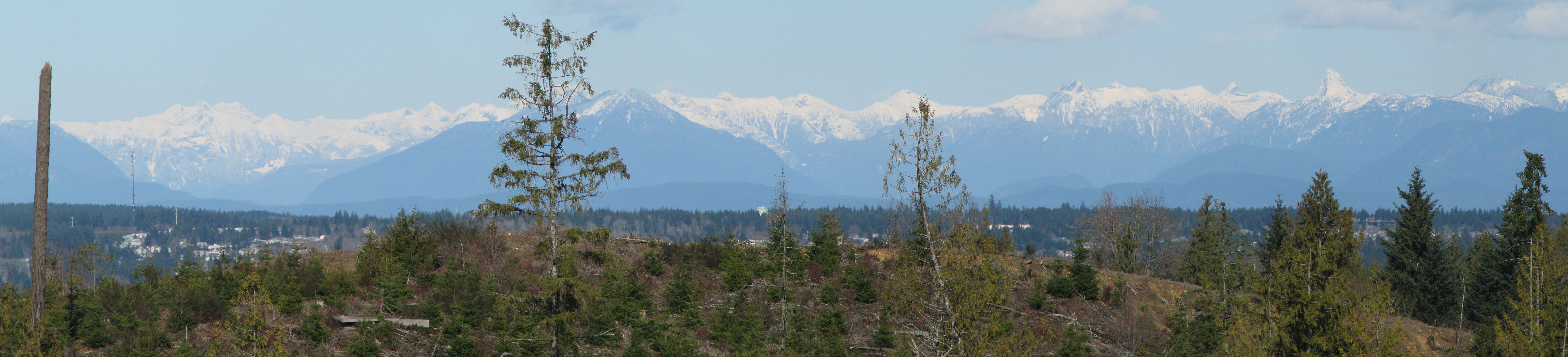 View of mainland British Columbia coastal mountains from Courtenay British Columbia on Vancouver Island